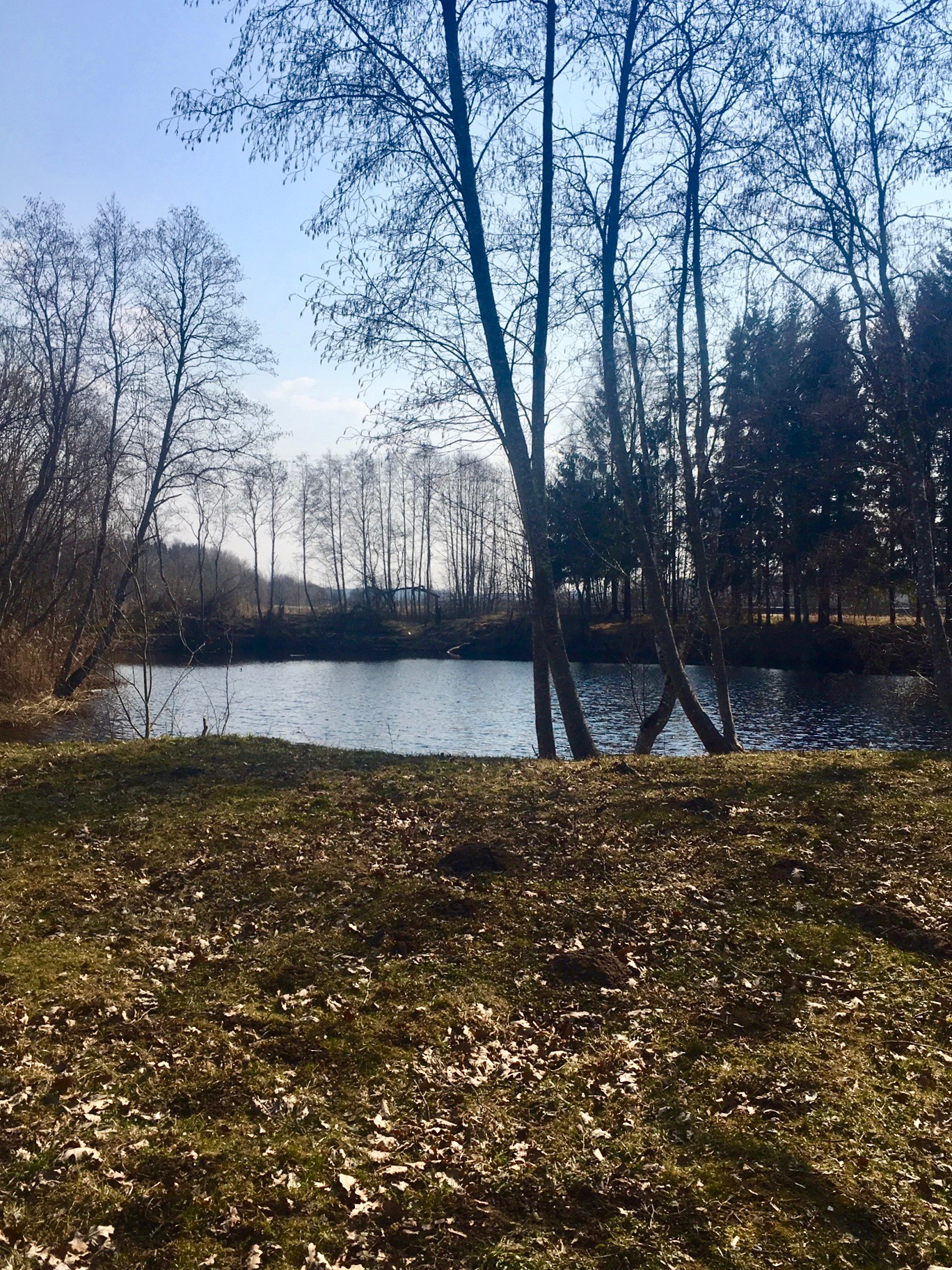 Ujumiskoht Tõllaauk